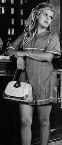 Carmen Morales- actriz